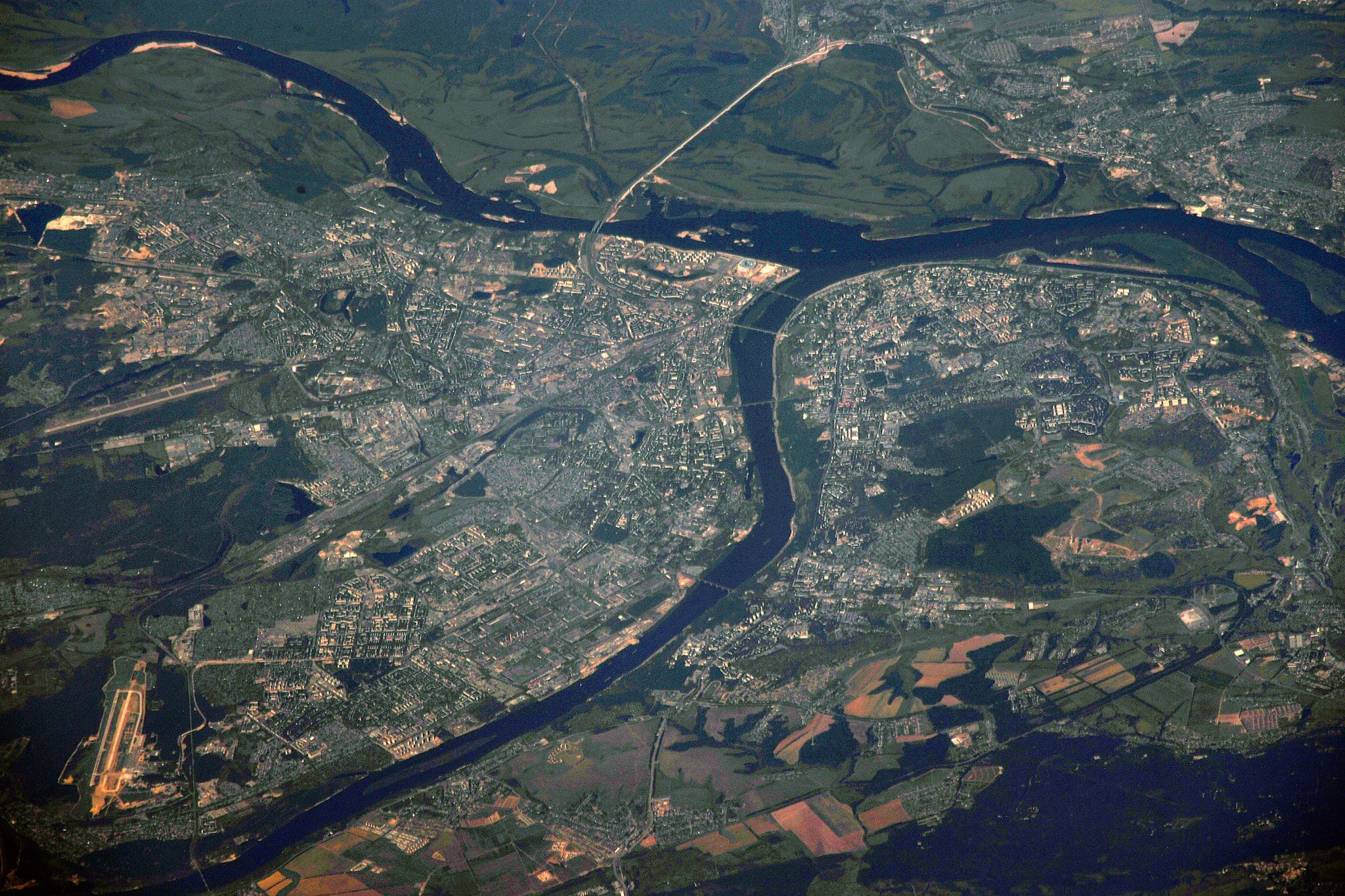 Nizhny Novgorod aerial view